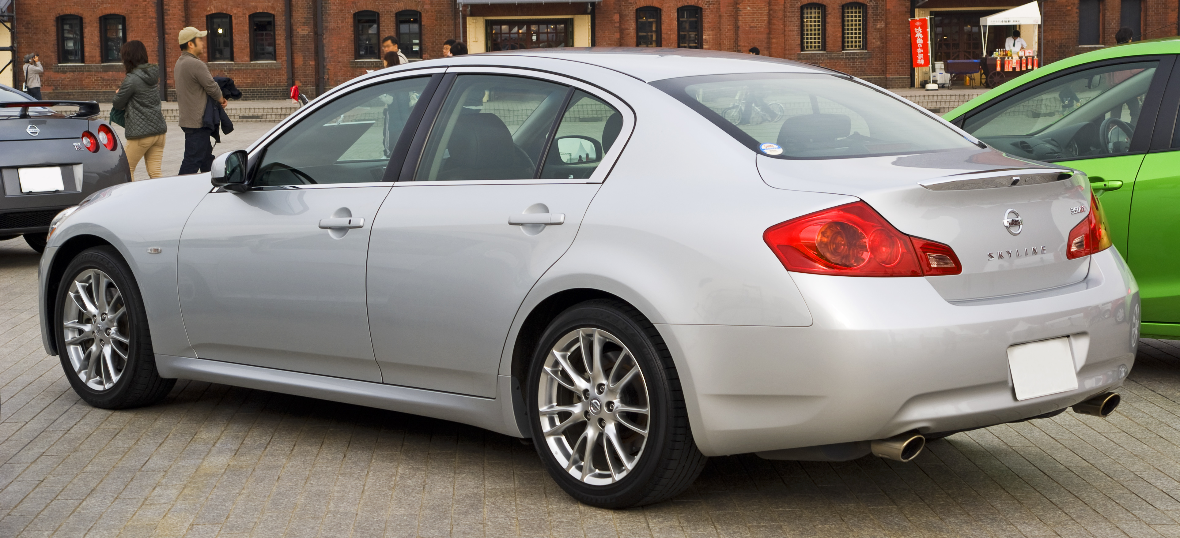 2007 Nissan V36 Skyline Sedan photographed in Yokohama Red Brick Warehouse